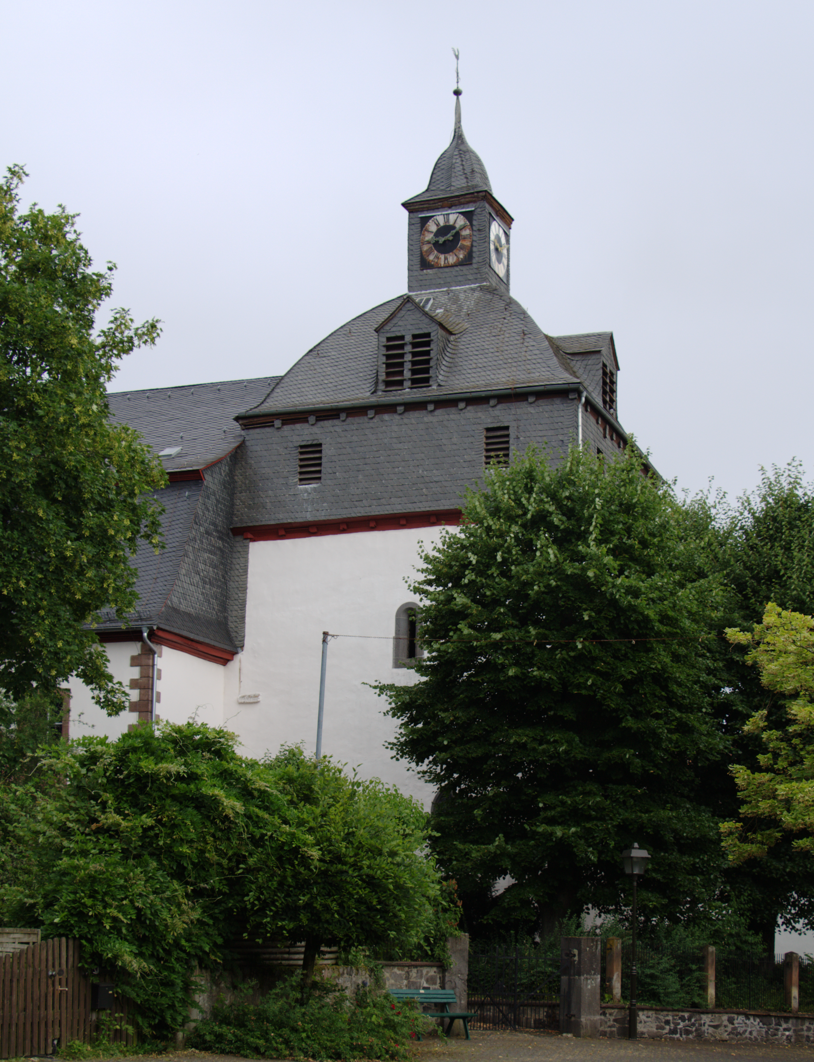 Steeple church in Ober-Ohmen Muecke Am Roemer / Hesse / Germany